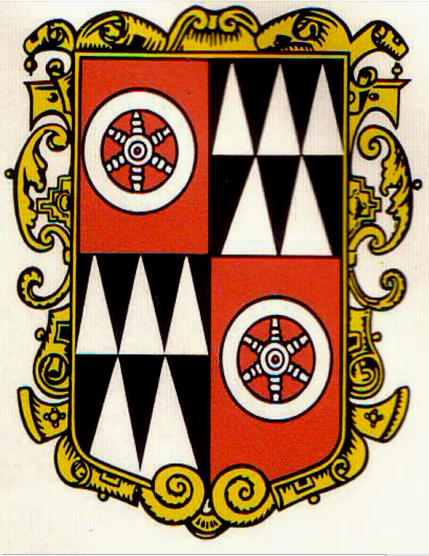 Anselm Casimir Wambold von Umstadt